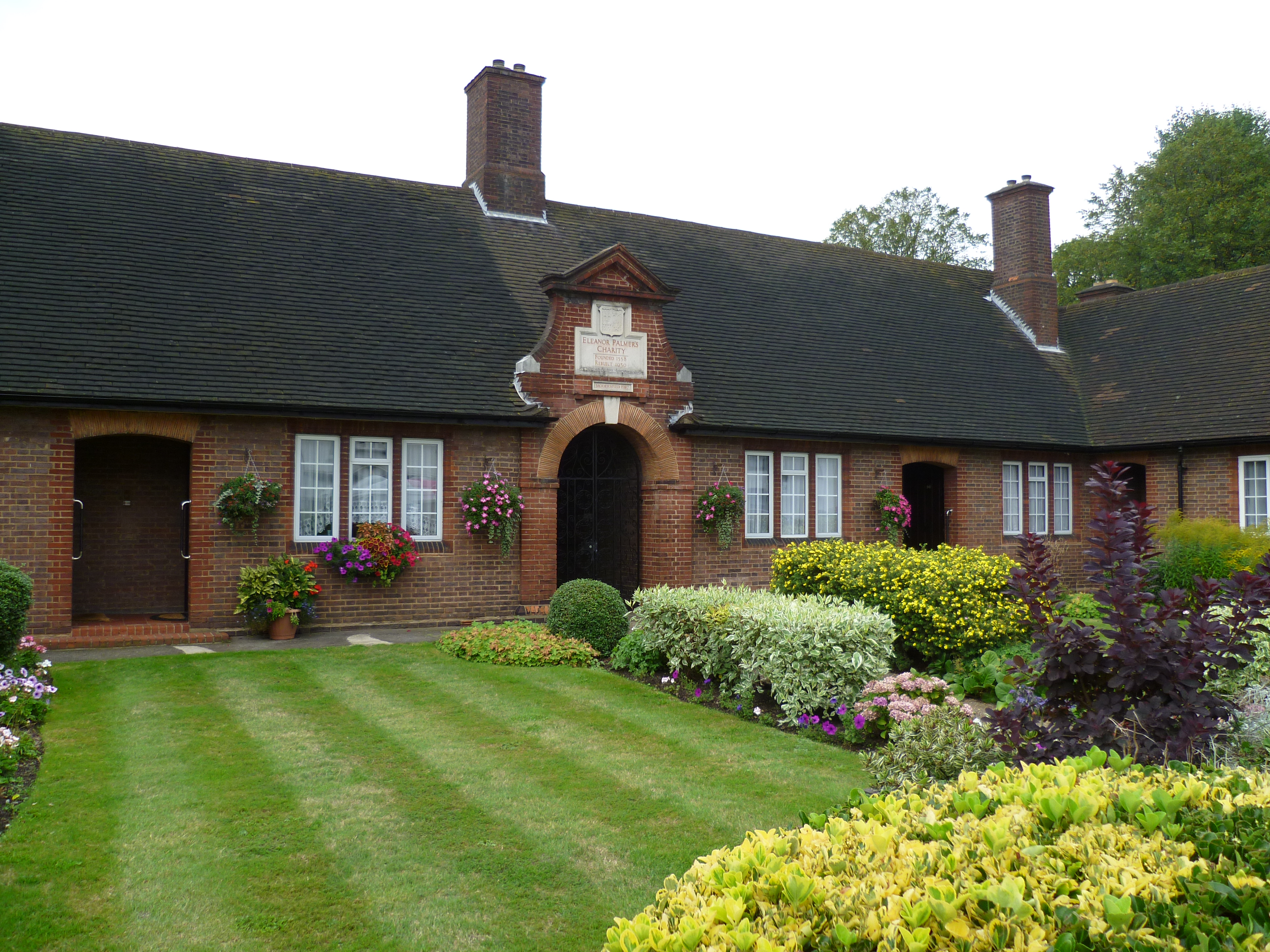 Eleanor Palmer almshouses, Wood Street, Chipping Barnet